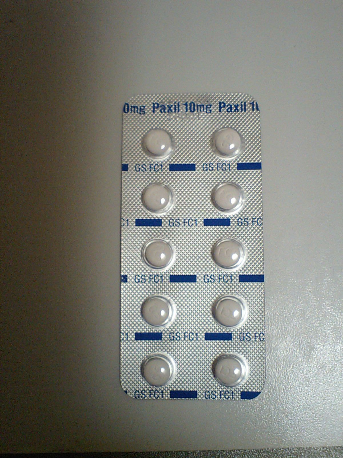 Paroxetine / Paxil 10mg (japan)